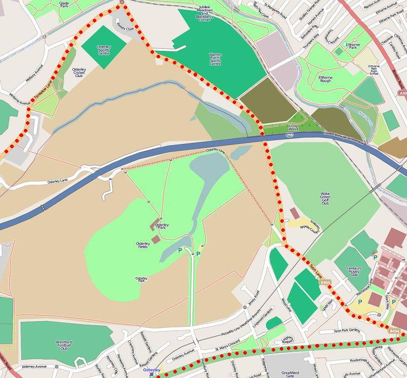 Road map of Osterley, London.